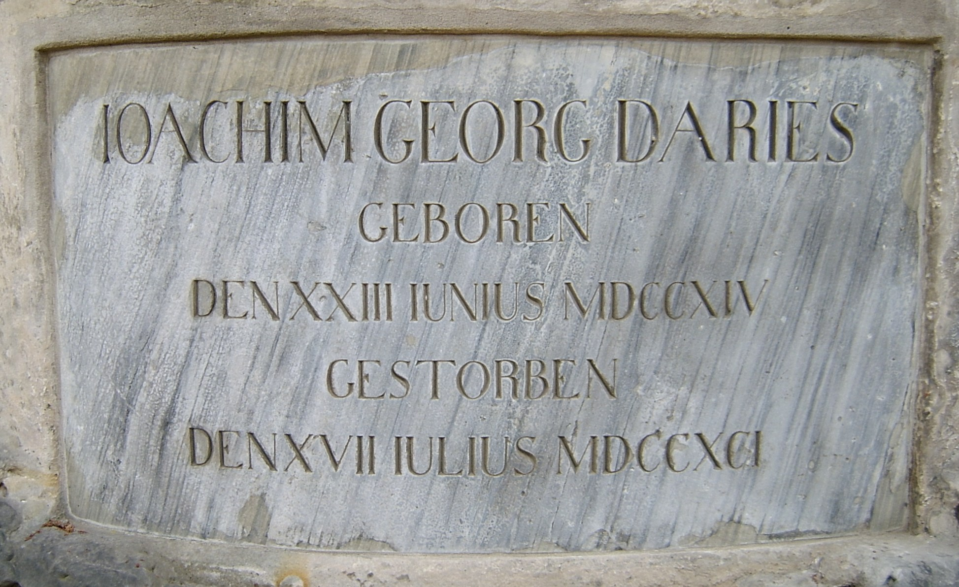 Left inscription in Monument by Joachim Georg Darjes and his wife Marta Friderica Reichardt.